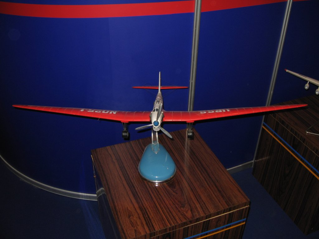 model of Tupolev ANT-25